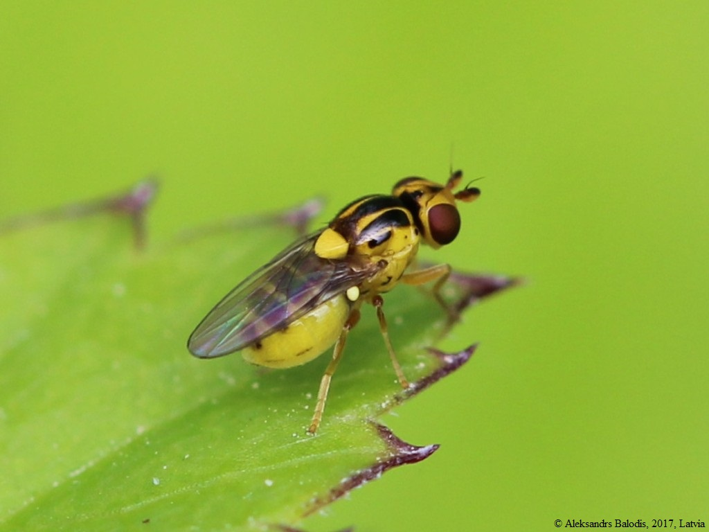 Chlorops pumilionis